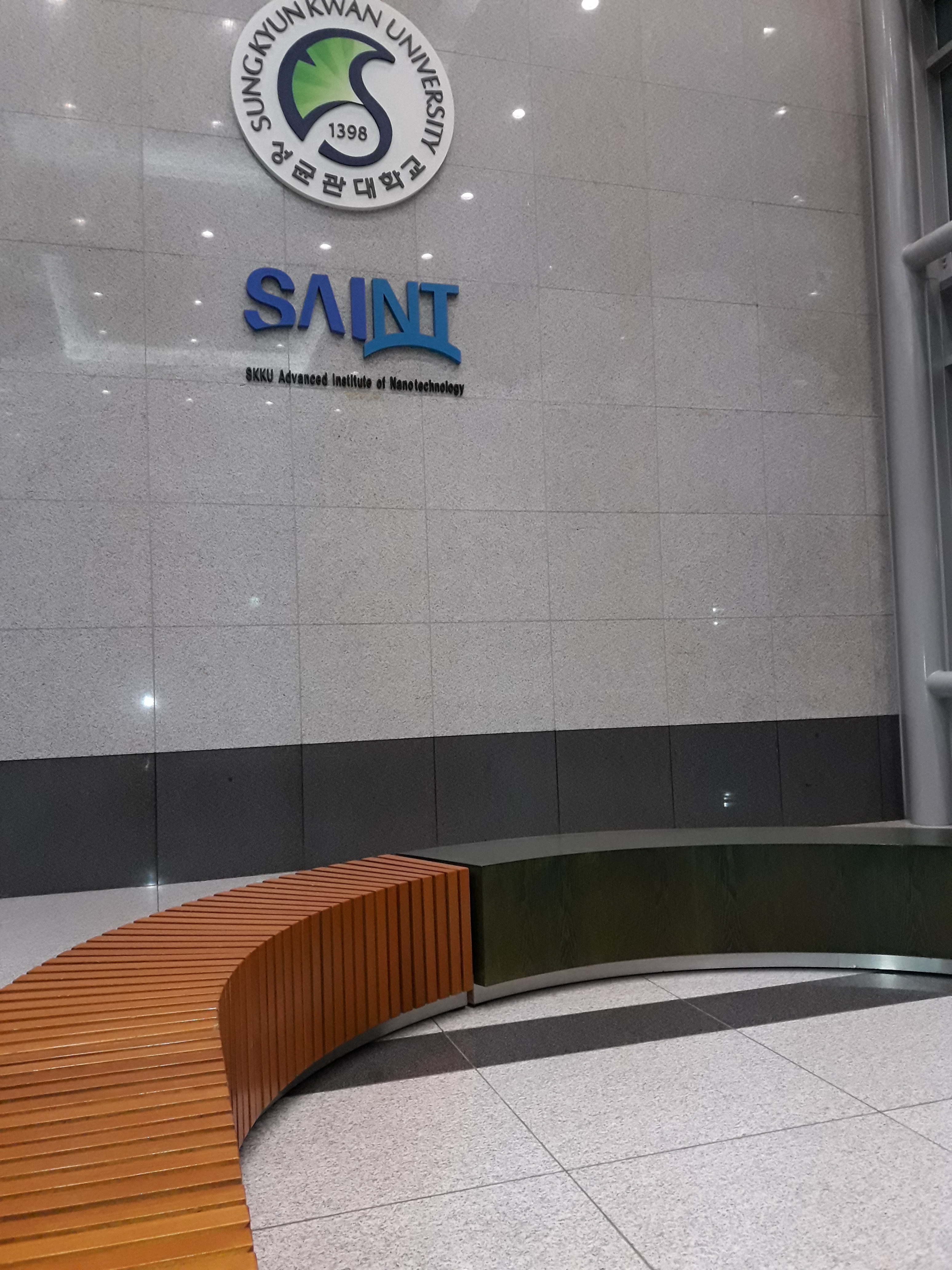 Interior of SAINT (Sungkyunkwan Advanced Institute of Nanotechnology)